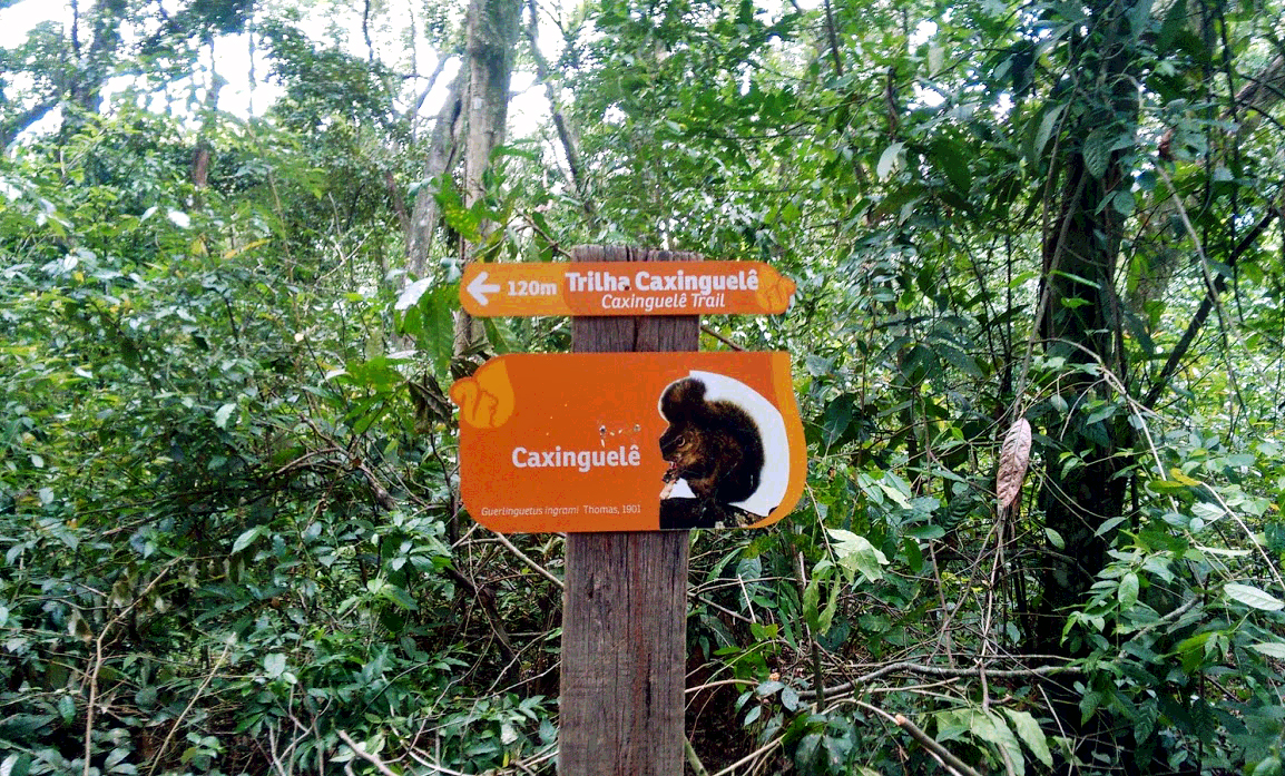 Caxinguelê Trail, one of the trails at Bosque da Freguesia